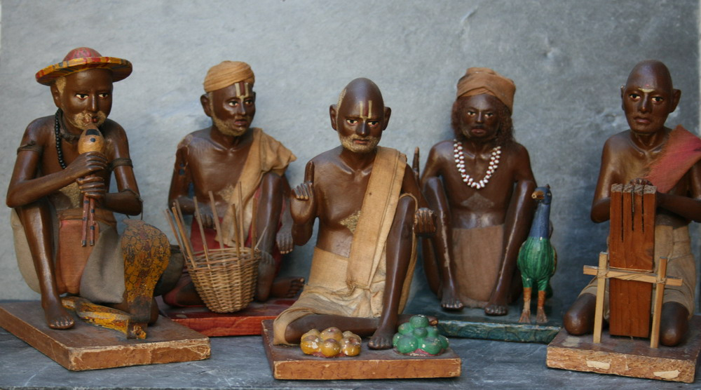 Clay Models prepared at Ghurni